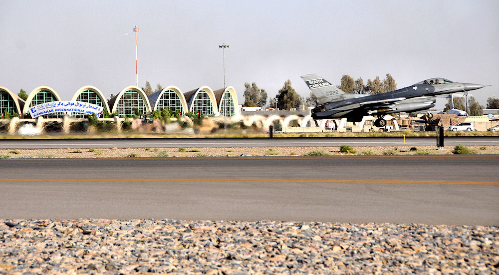 Lockheed F-16C Block 52P Fighting Falcon 92-3922 with the 157th Expeditionary Fighter Squadron, flown by Major Stephen "Boards" Kaminski, takes off at Kandahar Airfield for a day-time mission over Afghanistan on July 1, 2012. South Carolina ANG F-16's, pilots, and support personnel fly missions for the air tasking order and provide close air support for troops on the ground in Afghanistan. (U.S. Air Force photo by Tech. Sgt. Stephen Hudson)